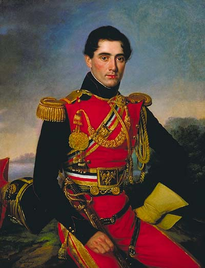 Portrait of Antoine Jacques Philippe de Marigny de Mandeville in his officer’s uniform from the Orleans Lancers of the Louisiana Militia.